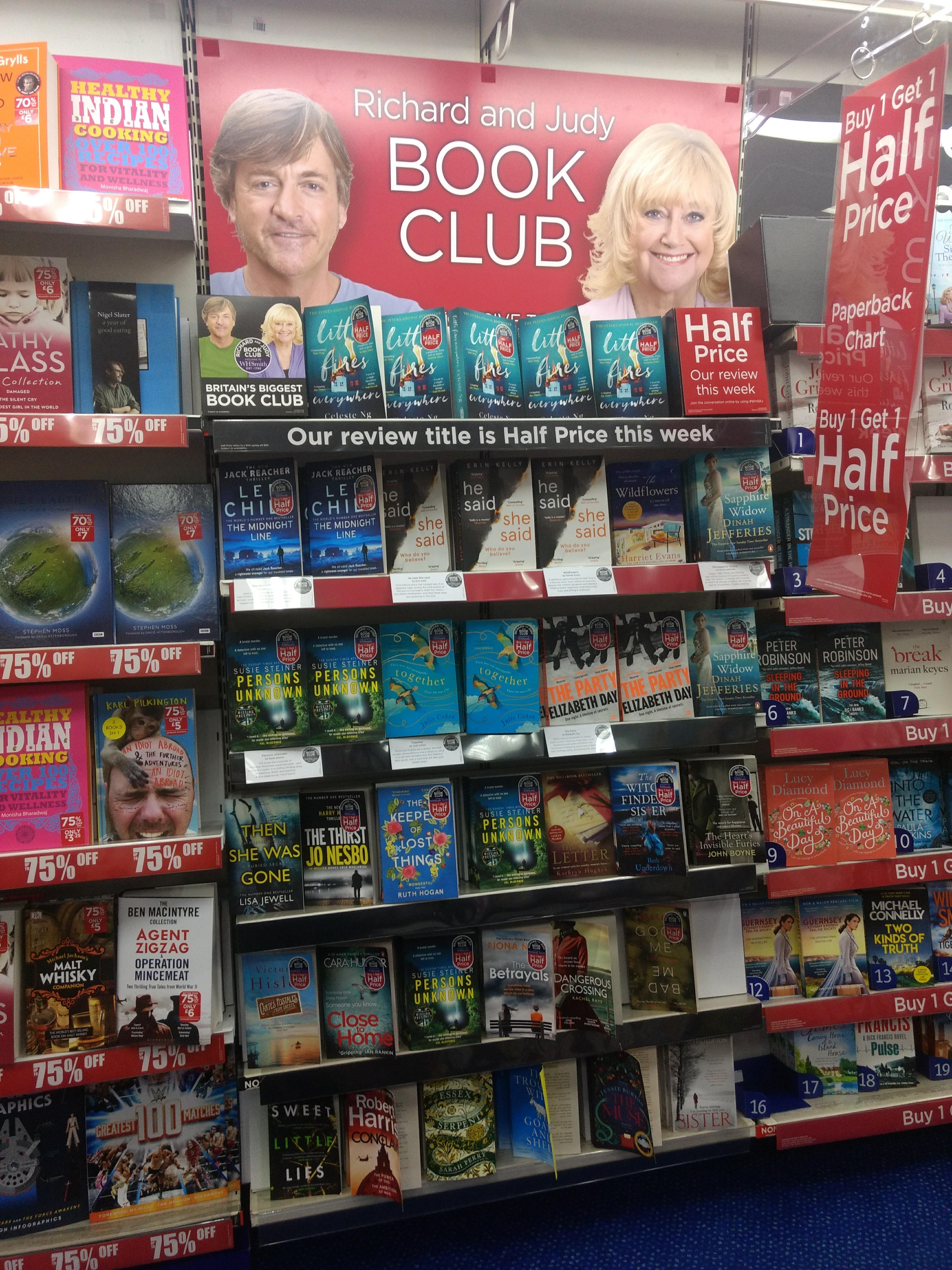 Books at W.H. Smith, Enfield, London.